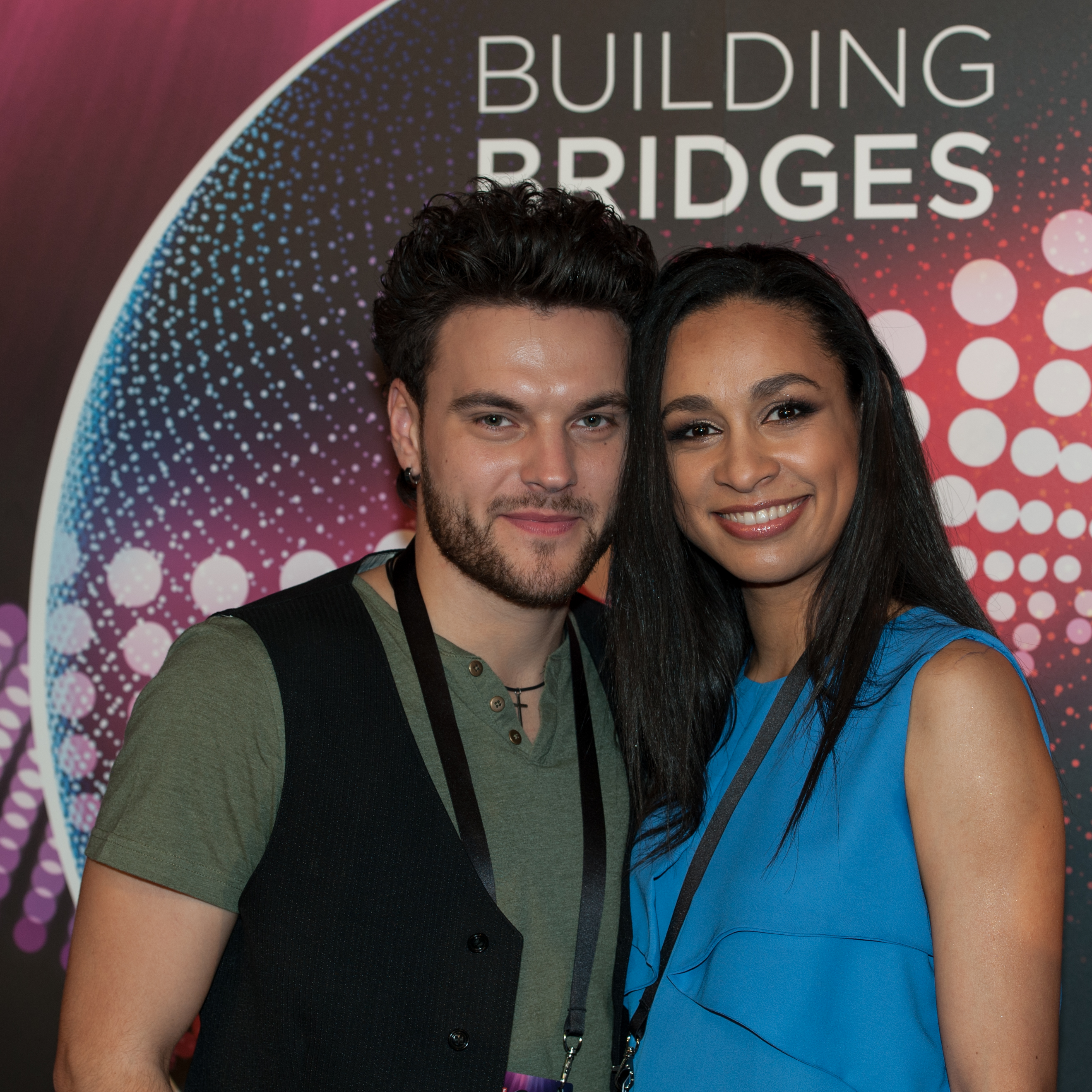 Eurovision Song Contest Vienna 2015: Uzari & Maimuna